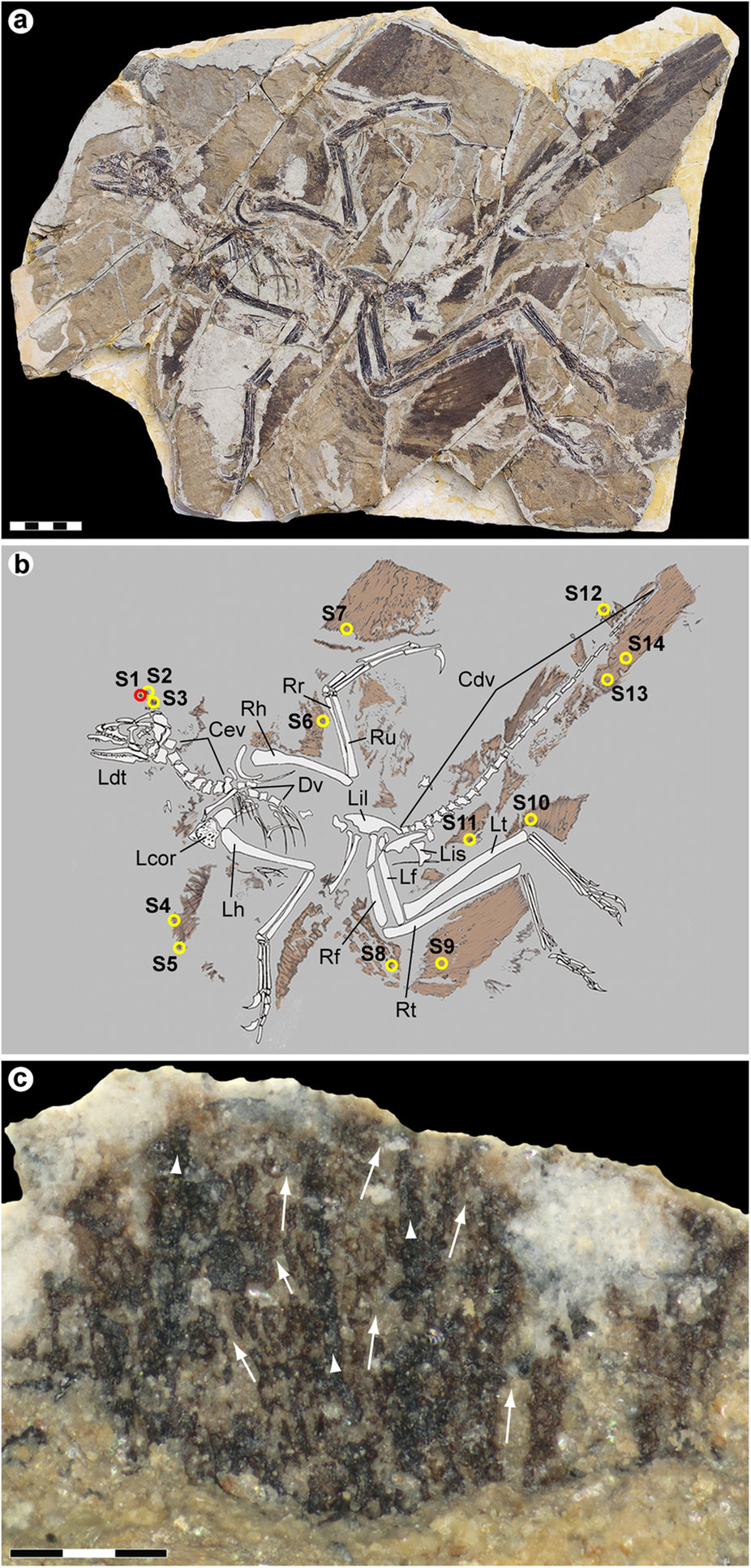 Anchiornis huxleyi specimen YFGP-T5199. (a) Photographic and (b) diagrammatic representation. Numbered circles denote location of plumage samples used for molecular and/or imaging analyses. Red circle (S1) demarcates the ‘forecrown’ sample used as the basis for our investigation; yellow circles (S2–S14) indicate samples used for supportive SEM imaging. Cdv, caudal vertebrae; Cev, cervical vertebrae; Dv, dorsal vertebrae; Lcor, left coracoid; Ldt, left dentary; Lf, left femur; Lh, left humerus; Lil, left ilium; Lis, left ischium; Lt, left tibia; Rf, right femur; Rh, right humerus; Rr, right radius; Rt, right tibia; Ru, right ulna. Scale bar: 5 cm. Photograph by Pascal Godefroit and Ulysse Lefèvre. Drawing by Ulysse Lefèvre. (c) Detail of S1 after initial preparation showing darker central strands (arrowheads) with diffuse arrays of filaments branching laterally at acute angles (arrows). Note that the analysed area is still covered by sedimentary matrix (see also Supplementary Fig. S1). Scale bar: 300 μm. Photograph by Johan Lindgren.